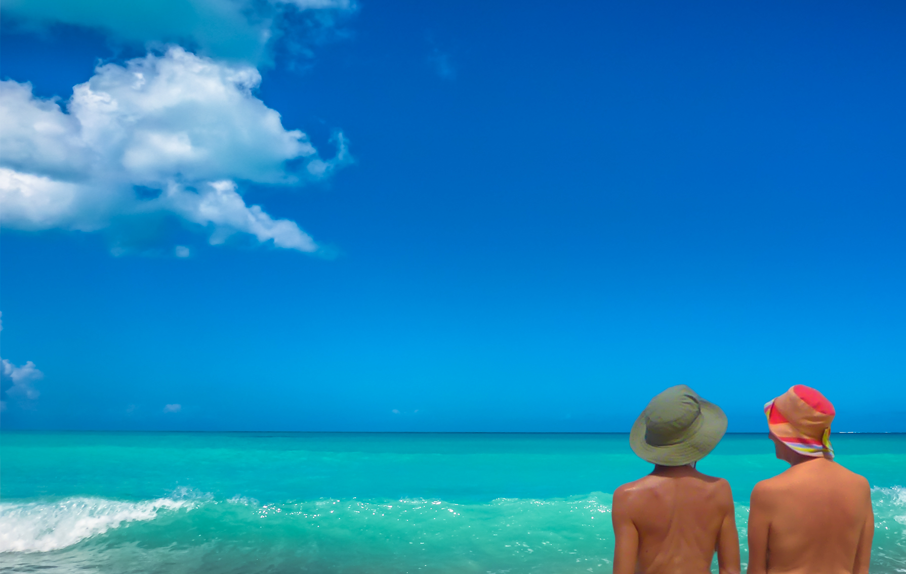 A sunny morning in March 2015 on Eden Beach, Hawksbill Bay, Five Islands, Antigua. One of the few official clothing optional beaches in the Caribbean, it's sometimes referred to as the Fourth Beach of the nearby Rex Resorts Hawksbill hotel.